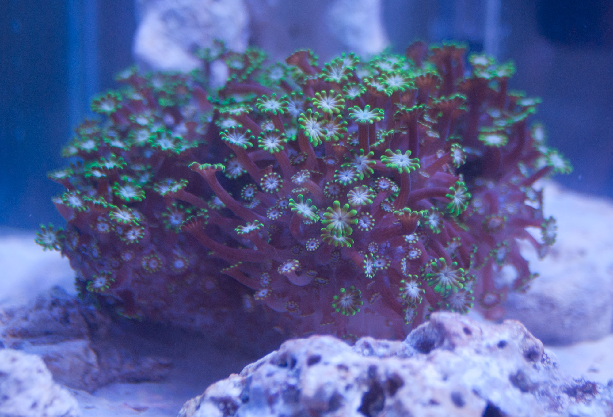 Alveopora spongiosa specimen, in a saltwater aquarium.